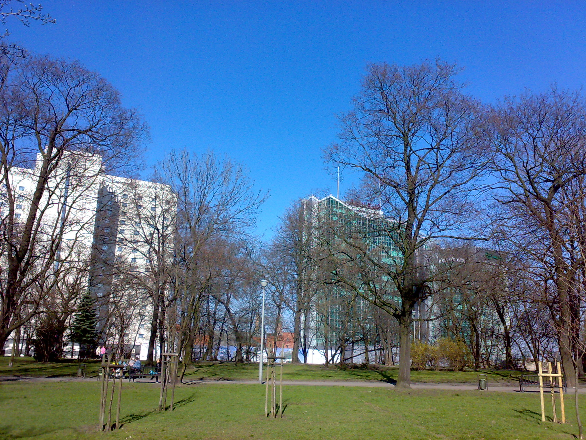 Drweskich Park in Poznan.